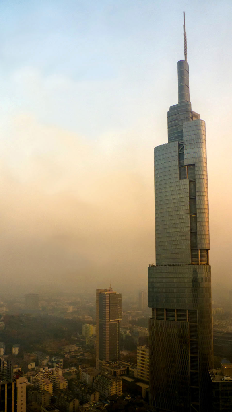 Zifeng Tower, 25 Nov., pm: view from the Celebrity City Hotel Nanjing